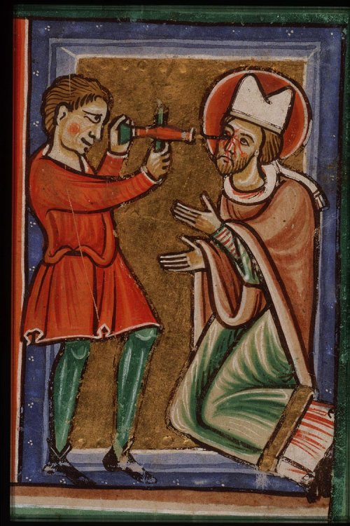 The martyrdom of St. Leger, Bishop of Autun: his eyes are pierced with a drill. From a picture Bible, circa 1200 (northwestern France).